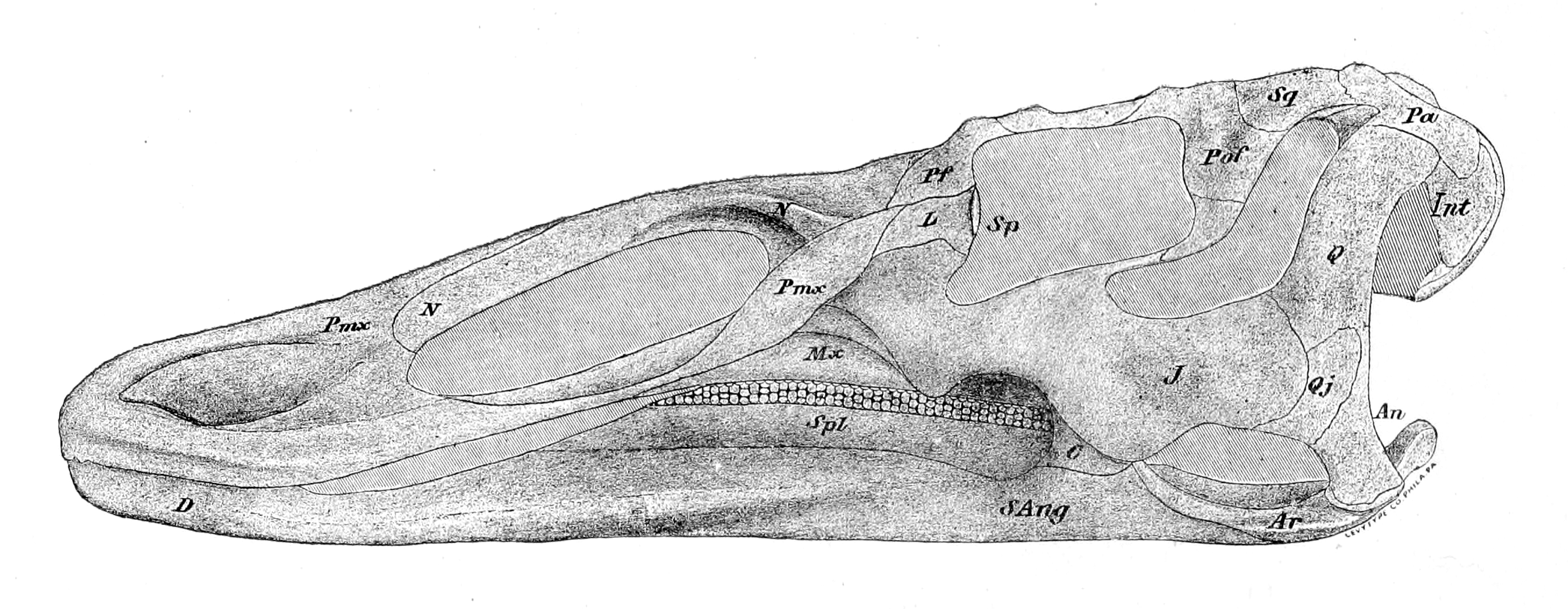 Historical drawing of AMNH 5730, the holotype skull of Anatosaurus copei LULL & WRIGHT 1942, subsequently becoming the type of the genus Anatotitan BRETT-SURMAN 1989, currently regarded a junior synonym of Edmontosaurus annectens (MARSH 1892), a very large hadrosaurine/saurolophine hadrosaur from the latest Cretaceous (Maastrichtian) of western North America.